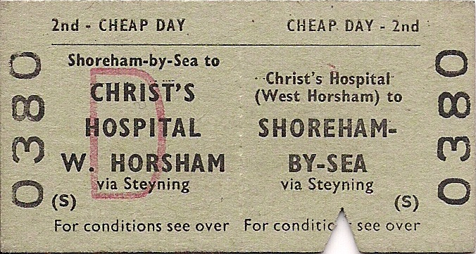 2nd Class Return issued by the British Transport Commission for a journey from Christ's Hospital railway station to Shoreham-by-Sea railway station, two days before closure of the Steyning Line.